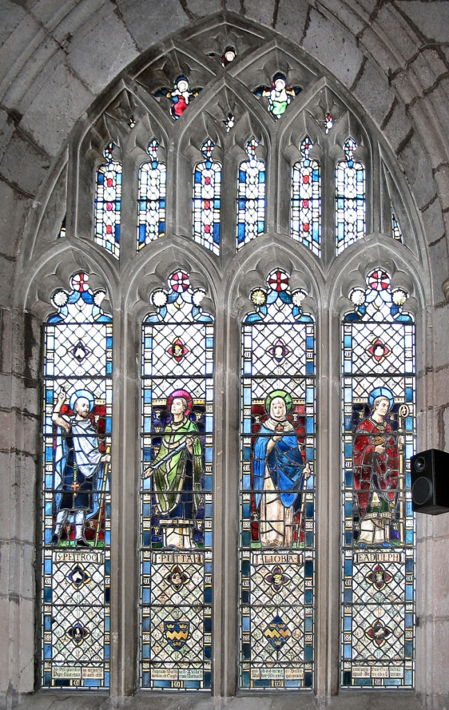 Hugh Arnold window in Crediton Church, Devon